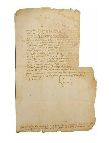 Carta de D Manuel, de 16 de Fevereiro de 1514